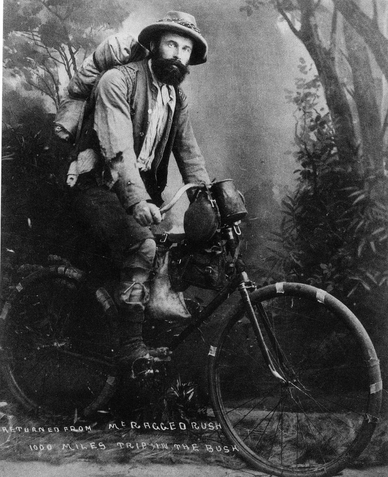 A goldminer who cycled a round trip of 1000 miles to a gold rush in Western Australia in 1895. Photo believed to be in the Public Domain